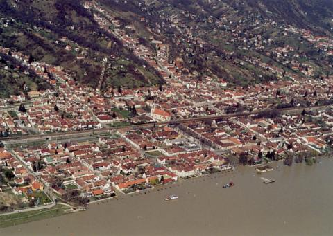 Nagymaros, Hungary, aerialphotography